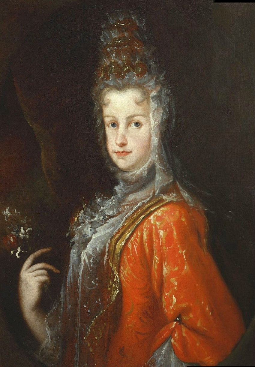 Portrait of Maria Luisa of Savoy, Queen of Spain and wife of Philip V